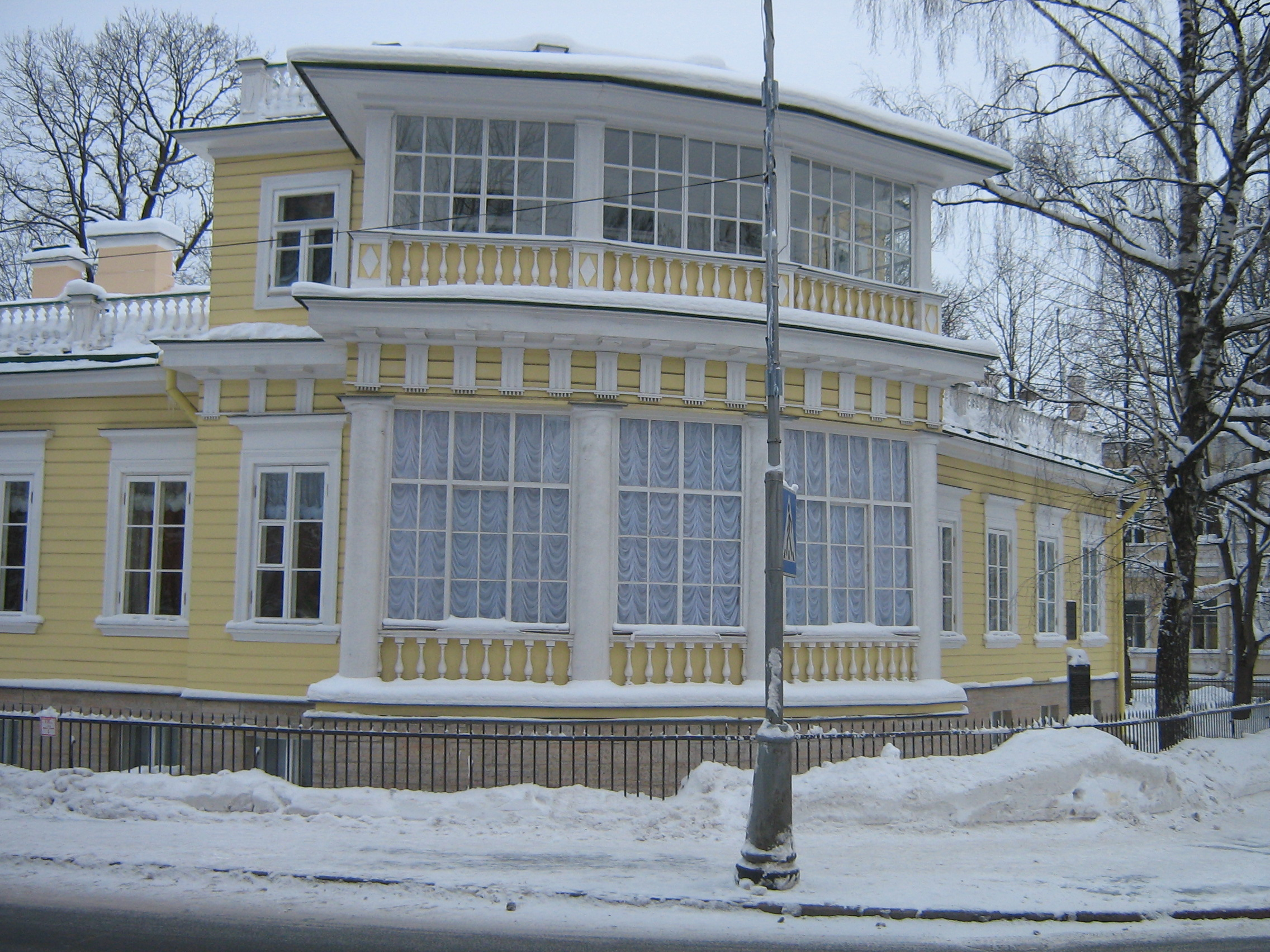 Saint Petersburg (Russia), town Pushkin.